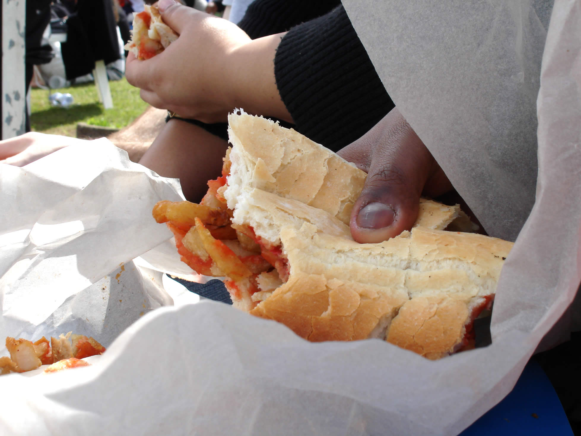 Jason & René sharing a gatsby at the Twenty20 semi-final... isn't there some unwritten rule forbidding the sharing of a gatsby? :)